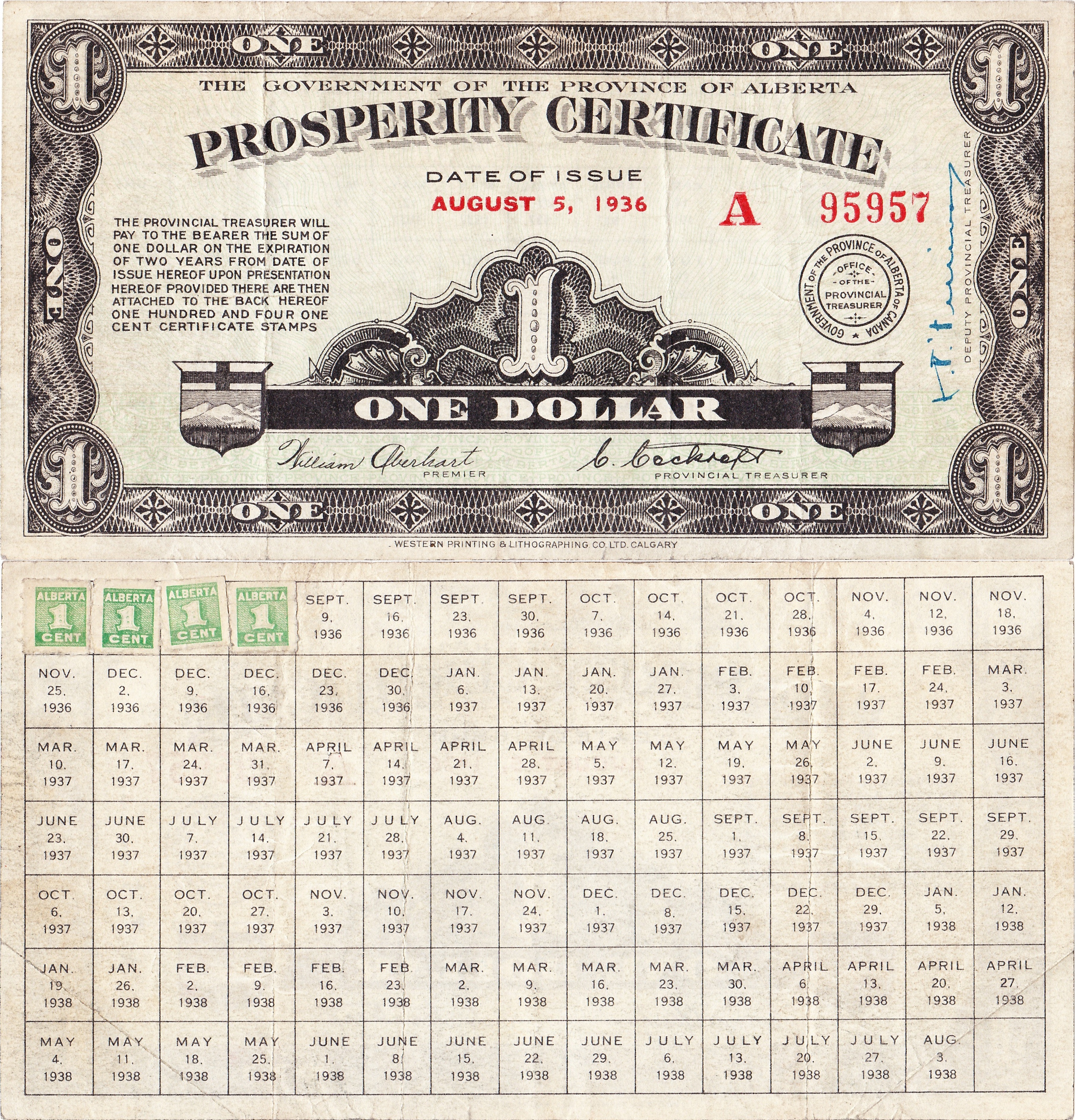 This is a one-dollar Alberta Prosperity Certificate, issued as an experiment by Alberta's Social Credit government in 1936. It is signed by Premier William Aberhart and Provincial Treasurer C. Cockroft. The large majority of Prosperity Certificates were redeemed and destroyed before the experiment could run its course.